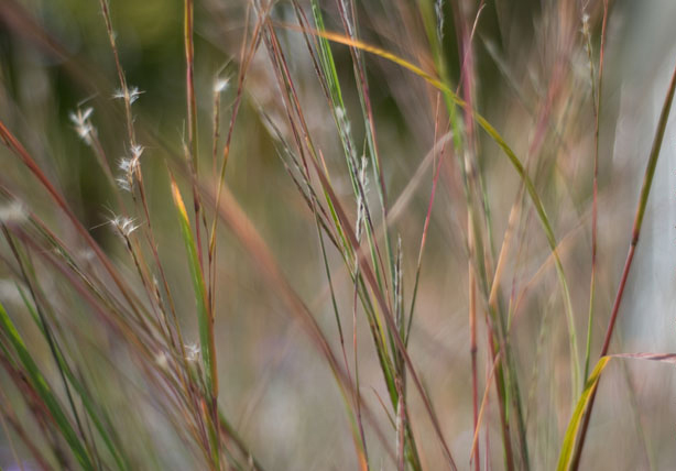 This is a close-up photo of Schizachyrium scoparium (little bluestem grass).